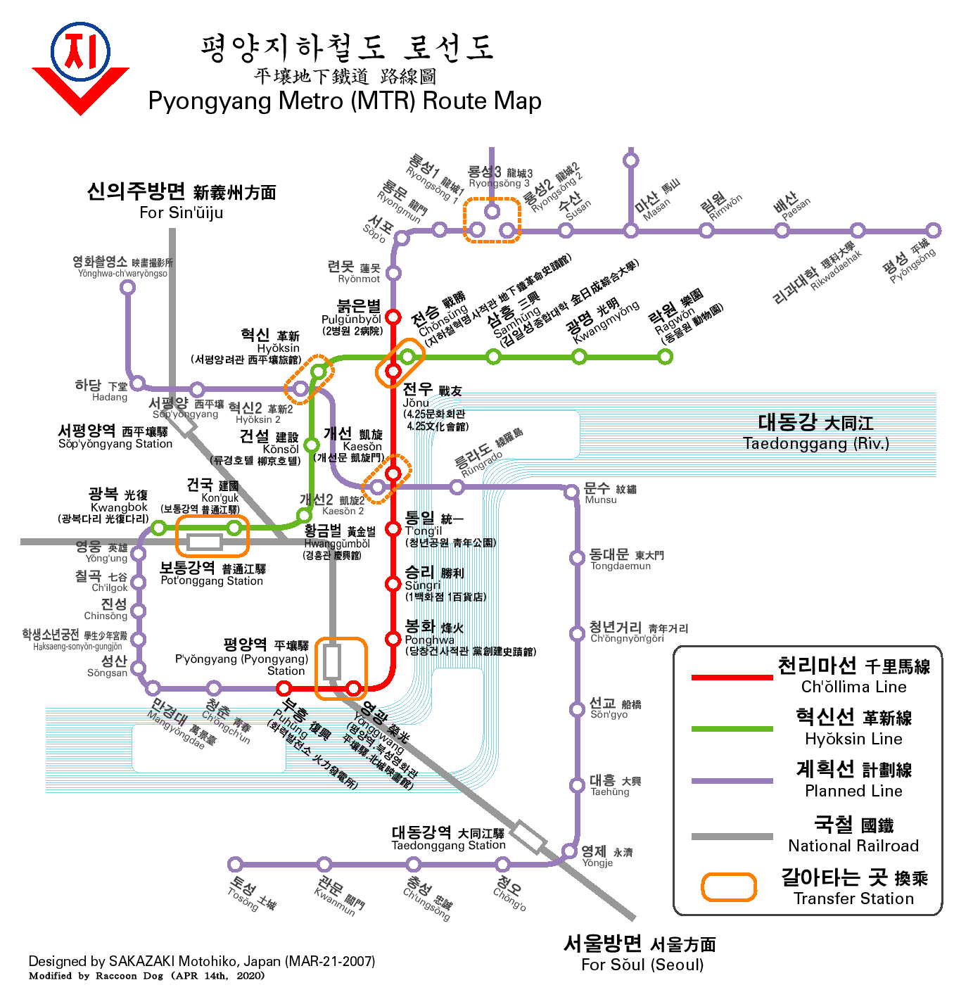 Pyongyang Metro Route Map Which Is Including Planned Line. Name of Station is Typed in Hanguel(Chosŏngŭel) -The Korean Alphabet-, Hanja(Hancha) -The Chinese Charactor-, and Roman Alphabet. Pyongyang is the Capital City of D.P.R.K. Pyongyang (D.P.R.K) Metro Route Map Including Planned Line.